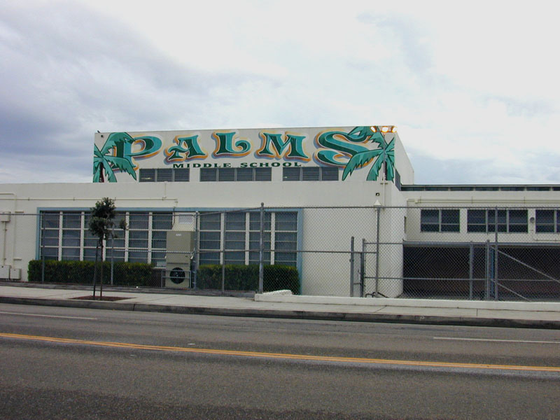 Palms Middle School, Los Angeles CA